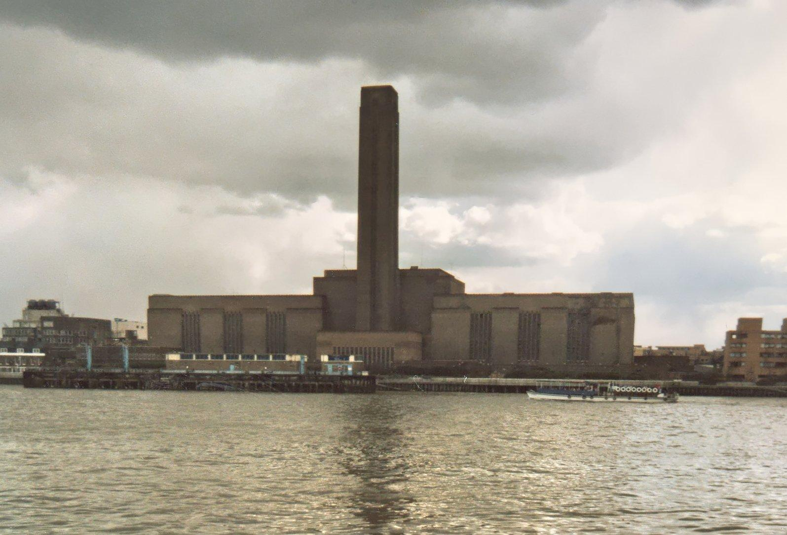 Bankside Power Station, London, England, around 1985. It was later converted in the Tate Modern art gallery.